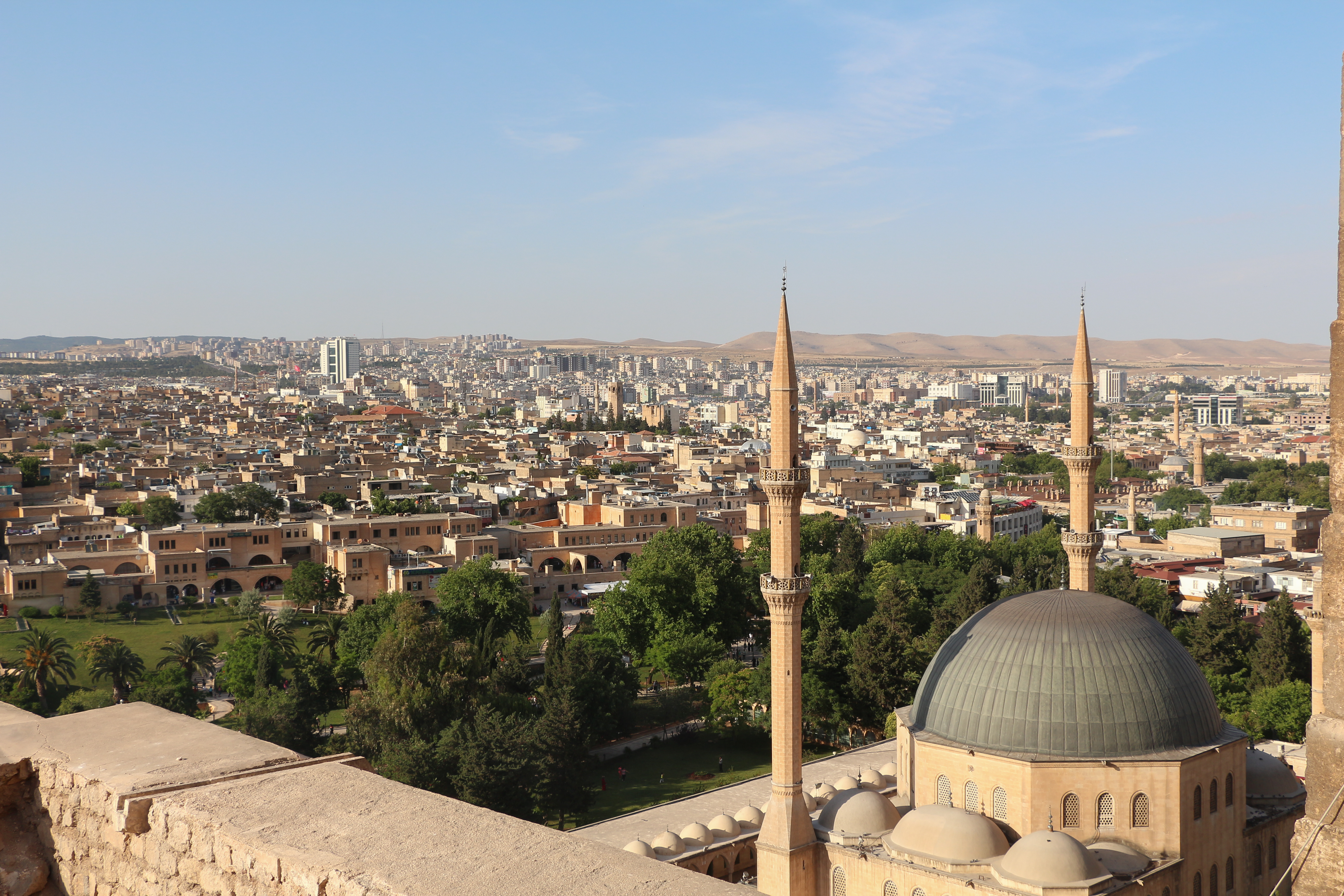 Şanlıurfa and the Mevlid-i Halil Mosque seen from Urfa Castle, Şanlıurfa, Turkey